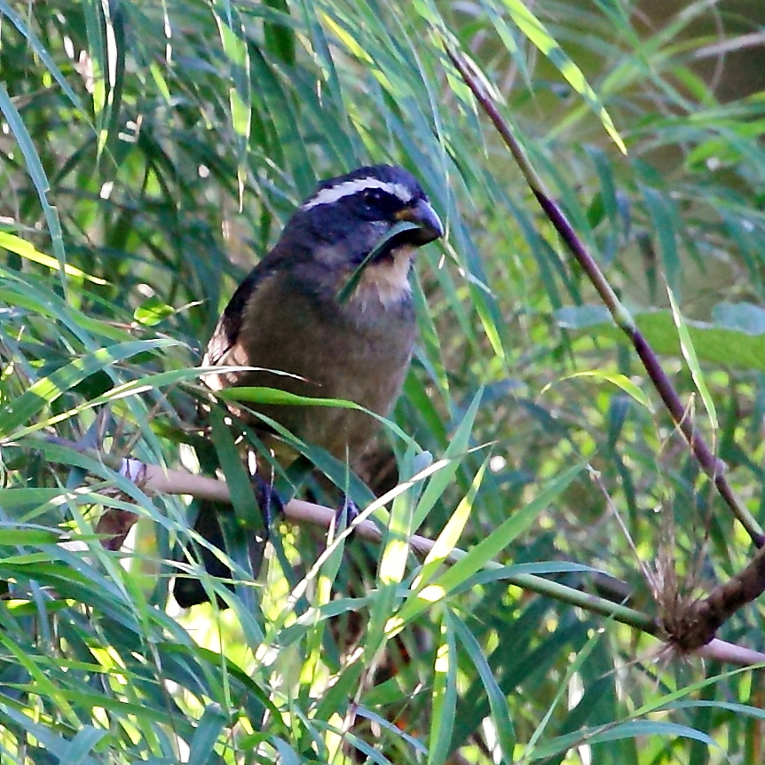 Thick-billed Saltator at Campos do Jordão - SP - Brazil